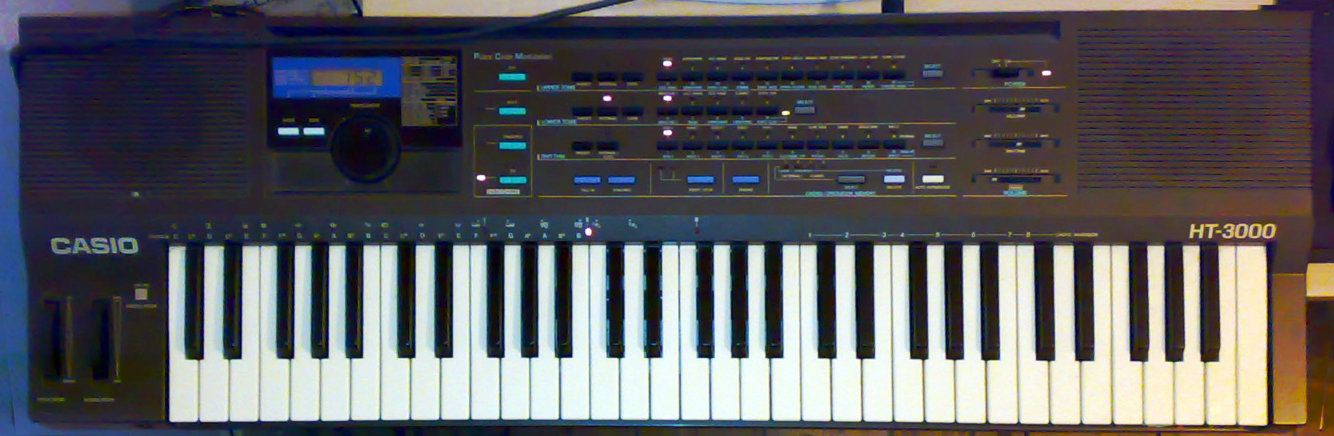 A Casio HT-3000 from the mid-eighties, poor quality image but you get the point. Note: Casio HT-3000 was also sold as Hohner KS 61 with light grey body. References Christian Oliver Windler. Hohner JS 49 (Hohner version of Casio HT-700). TableHooters - Warranty Void - CYBERYOGI. "Casio also released an 61 fullsize keys variant of their HT-700 as Casio HT-3000, which had an additional modulation wheel (that may be also addable to the HT-700 and KS 49 as a hardware easteregg); a light grey version of it was released as Hohner KS 61."